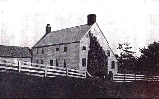 This is my copy of a photo from "State of Rhode Island and Providence Plantations at the End of the Century" Volume 3, By Edward Field (Mason Publishing Co., Boston: 1902) ([1] (accessed November 14, 2008 on google book search).